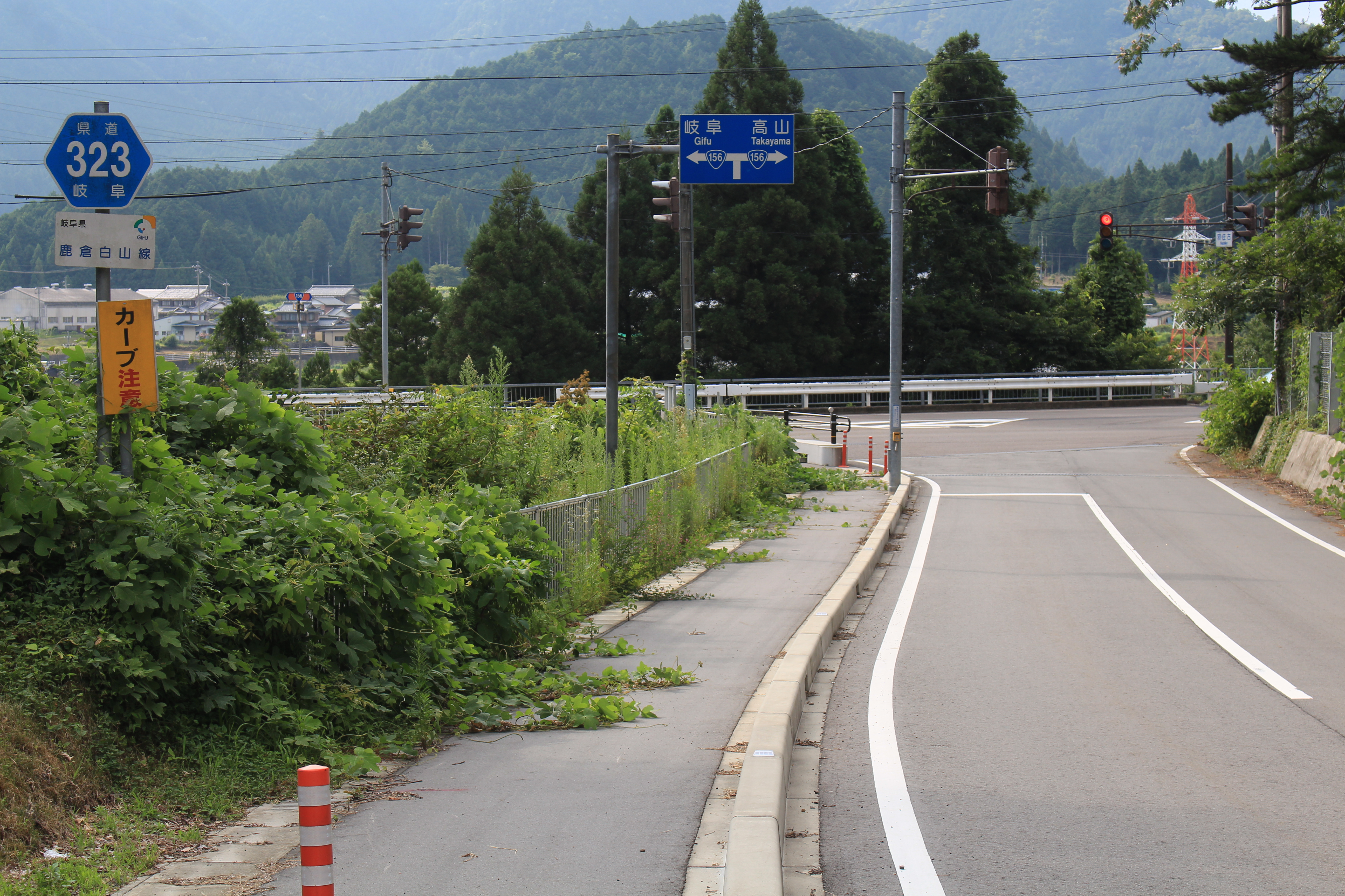 Gifu Prefectural Road Route 323 and Route 156 in Hakusan, Minamicho, Gujo, Gifu Prefecture, Japan.